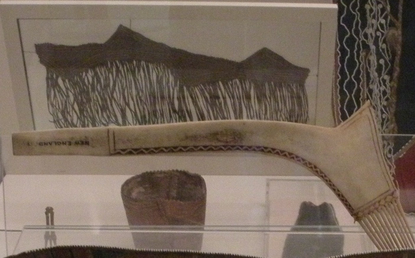 Beothuks artefacts at the British Museum.